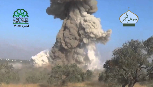 Collage of Ahrar al-Sham operations during the Syrian civil war.